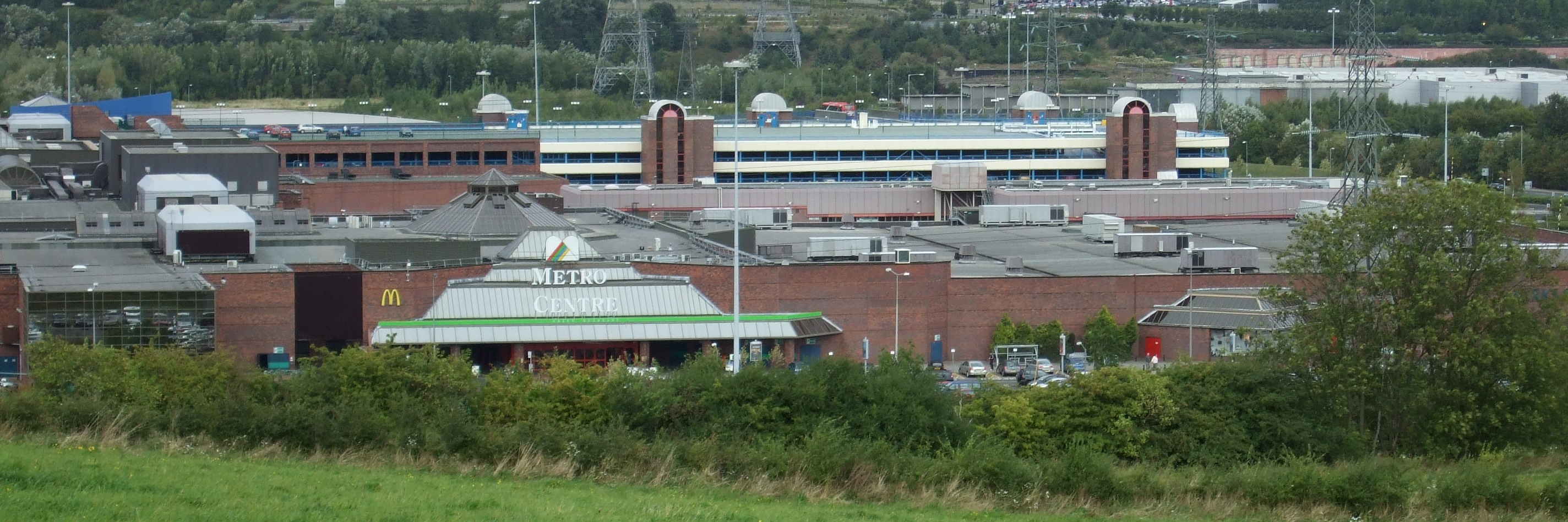 The Green Quadrant of the Metro Centre, Gateshead, Tyne and Wear. Photographed from Dunston.